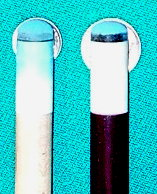 Illustration of the concept of a dime-radius and a nickel-radius cue tip.